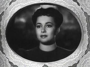 Cropped screenshot of Olivia de Havilland from the trailer for the film The Strawberry Blonde